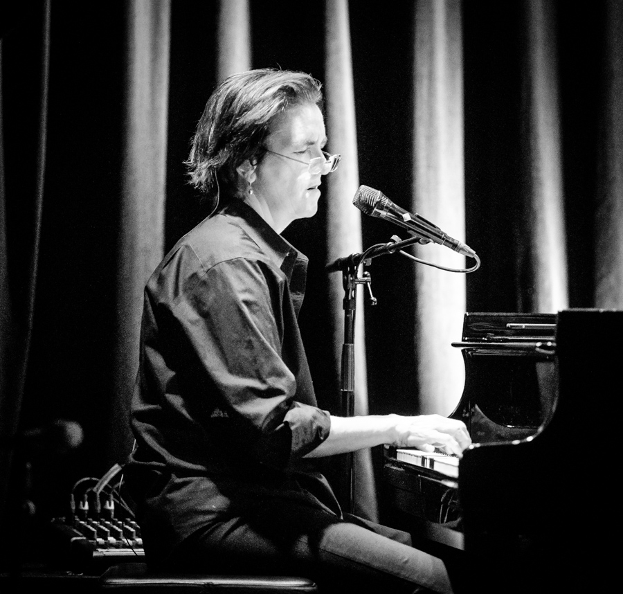 Patricia Barber at the stage at Victoria Teater. The concert took place on 06. December 2017 in Oslo. Lineup: Patricia Barber (piano / vocal), Patrick Mulcahy (double bass) and Jon Deitemyer (drums).